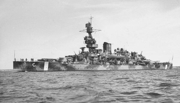 The Swedish coastal defence ship HMS Gustav V during World War 2.